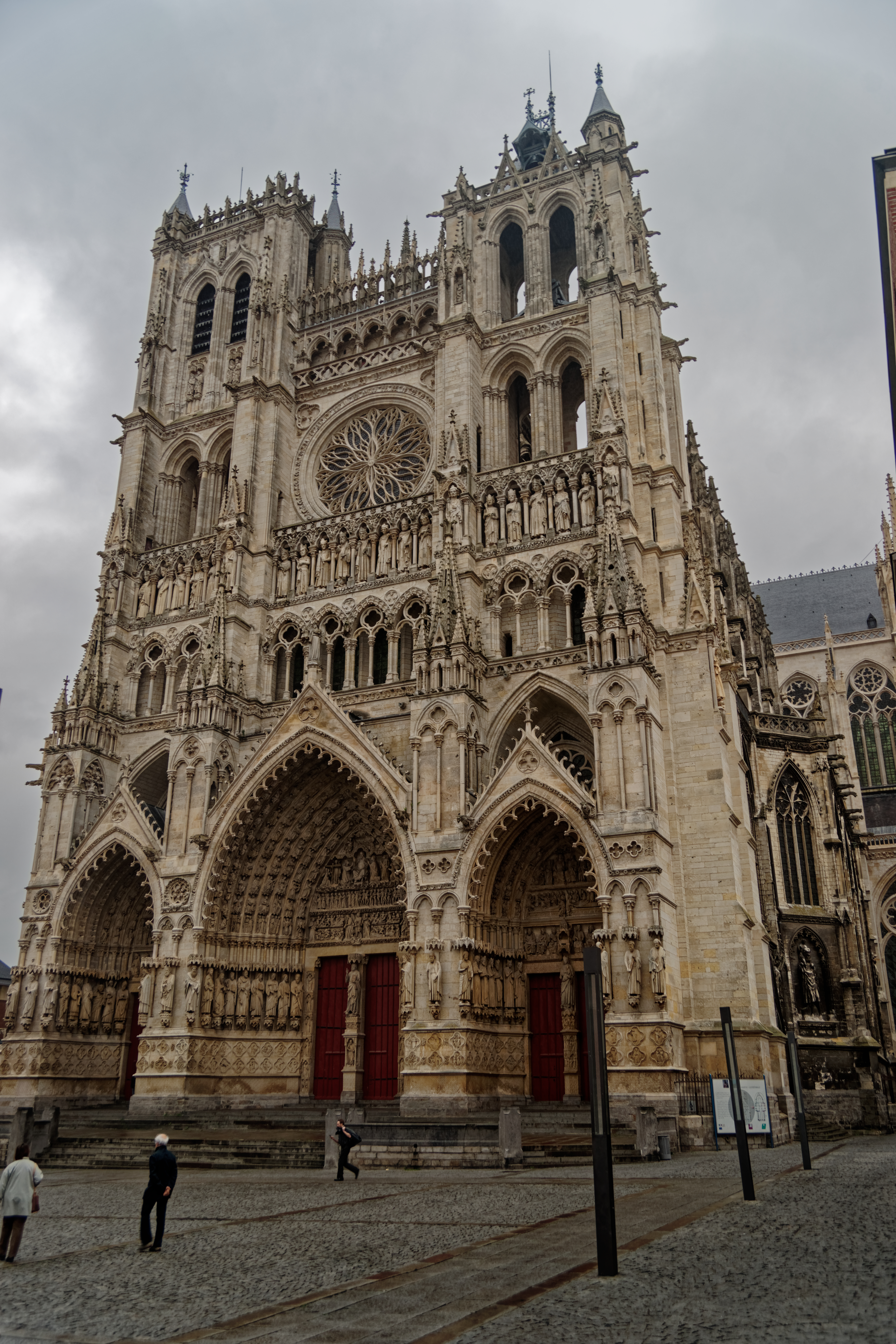 Amiens - Place Notre-Dame - View ENE on West Front of La Cathédrale Notre-Dame d’Amiens 1220-88